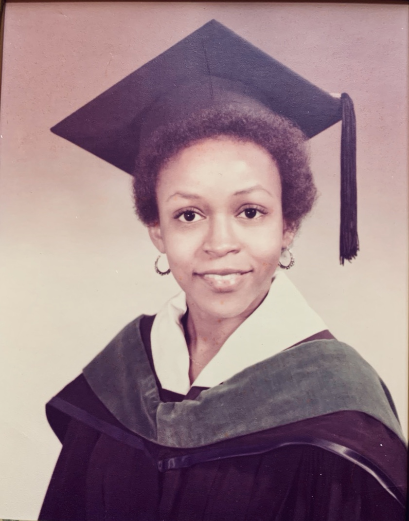 The personal graduation picture of Dr. Janet L. Mitchell f